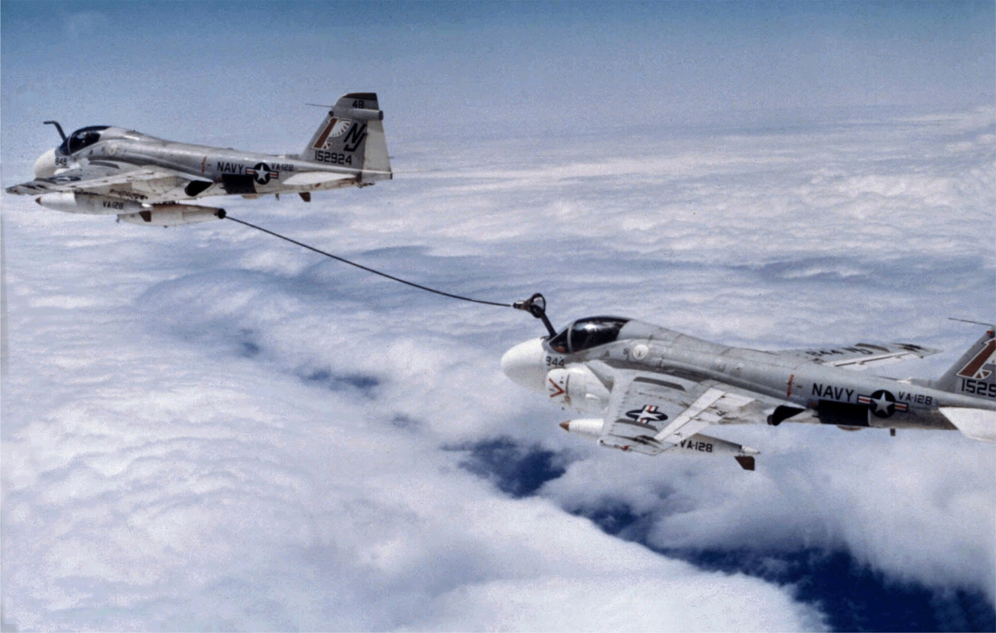 A U.S. Navy Grumman A-6A Intruder from Attack Squadron VA-128 refueling another Intruder of the same unit.